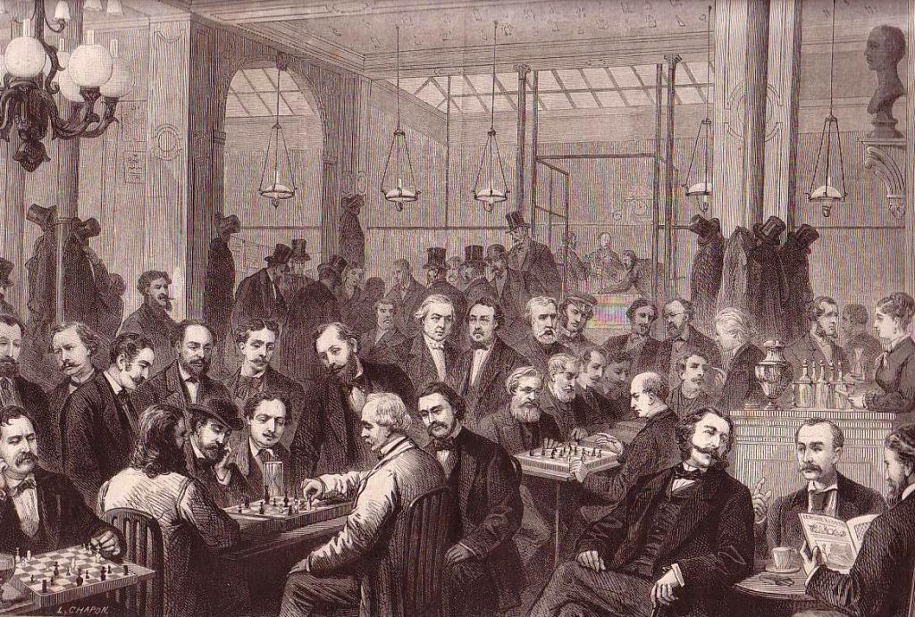 The famous chess-playing center Café de la Régence of Paris, France, in 1874.